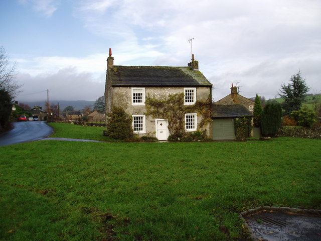 17th Century Squatters' House, Airton Apparently homeless people could apply to the Quarter Sessions for permission to build a house on common land. If they could make the framework of their house within 24 hours they were given squatters' rights, but every night the locals made sure any new attempt was pulled down. History does not record how the Squatters' House managed to survive.